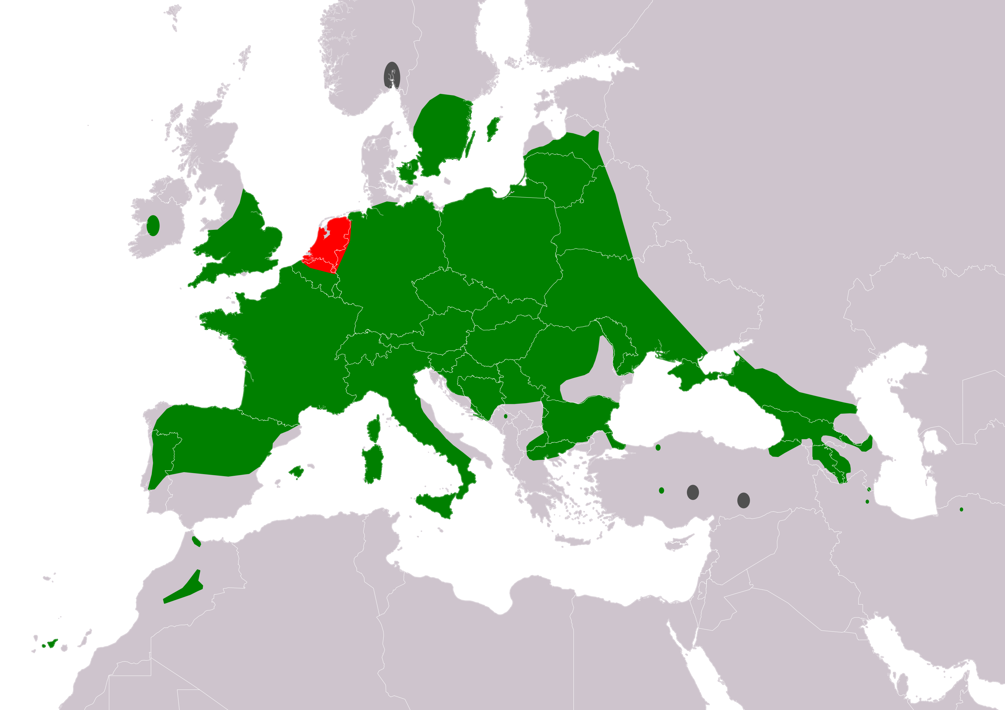 Distribution map of Western Barbastelle (Barbastella barbastellus) according to IUCN version 2019.3; key: Legend: Extant, resident (#008000), Extinct (#FF0000), Presence uncertain (#505050)